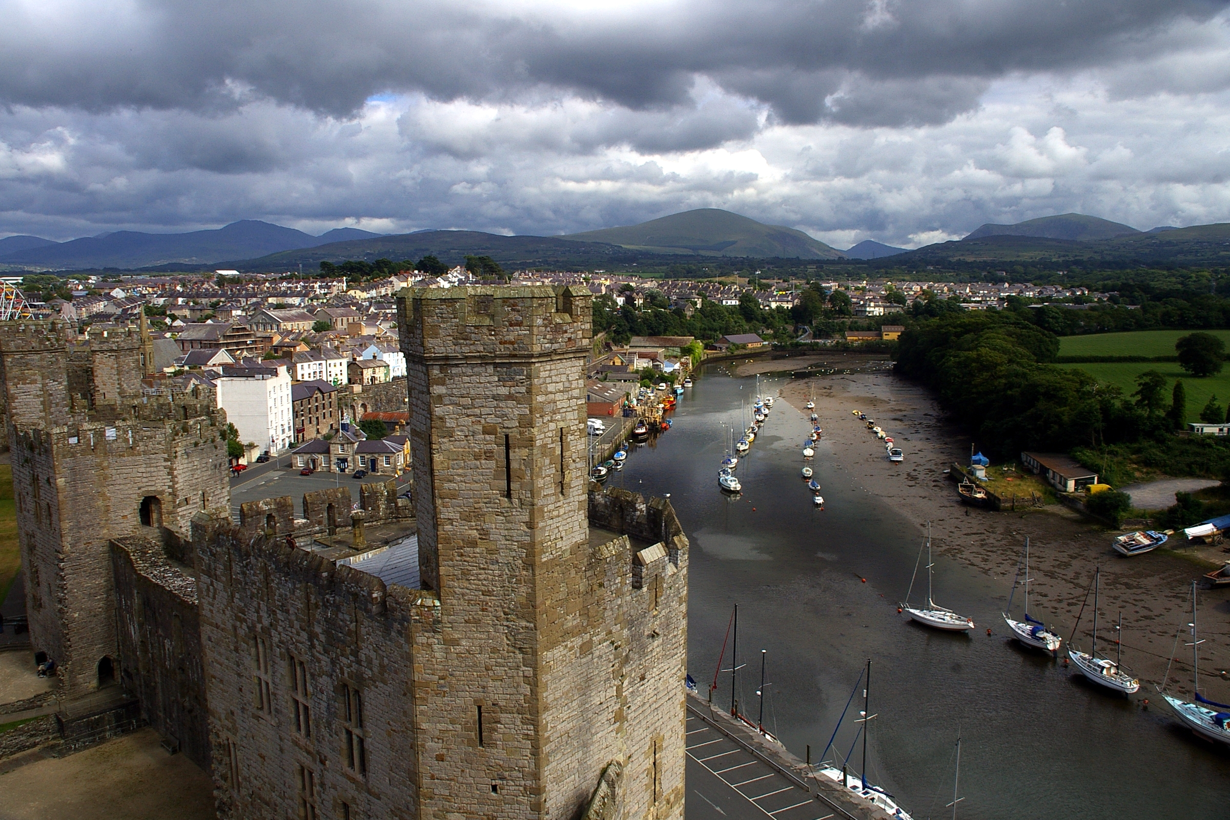 Caernarfon Castle in North Wales. View from the Eagle Tower down to the town and harbour.